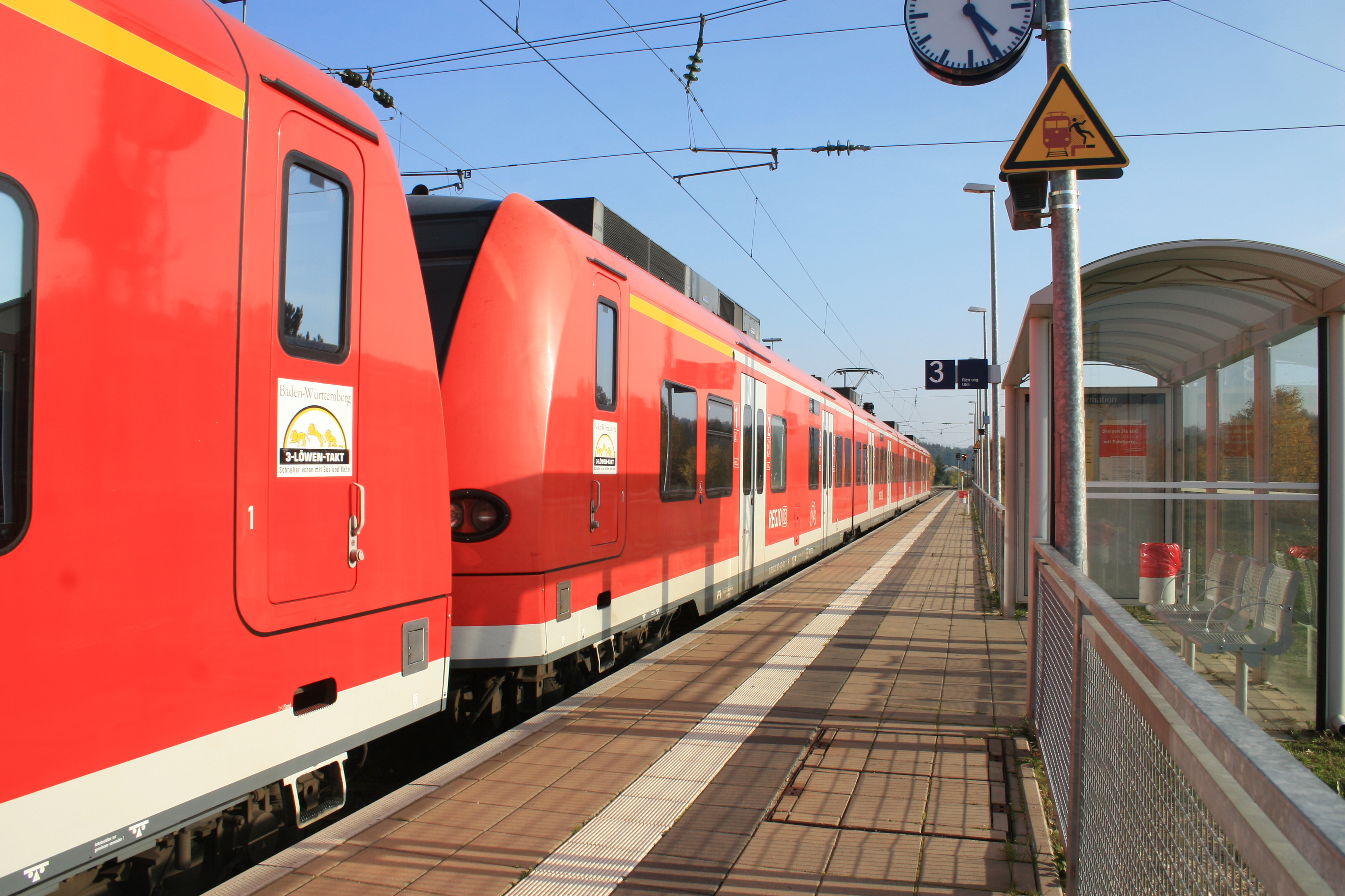 Stop of a train at platform 3 in the railway station of Amstetten (Württemberg)